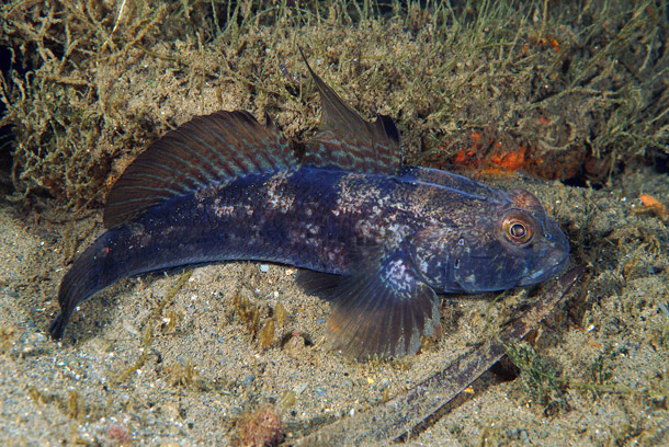 Gobius niger male photographed in Tuscany (Italy) Photo by Stefano Guerrieri.